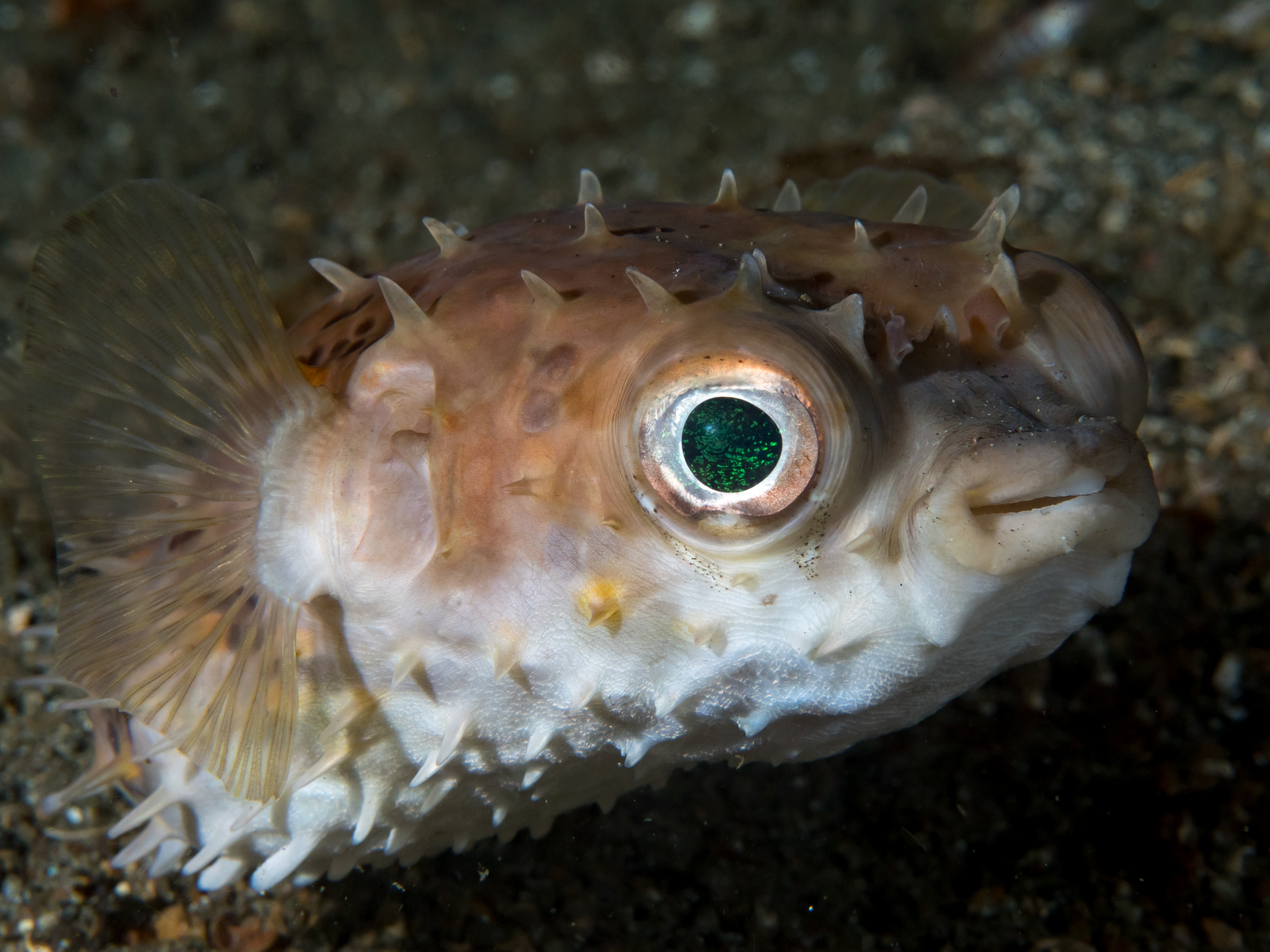 Indonesia / Lembeh_June_2018 - Birdbeak burrfish (Cyclichthys orbicularis)